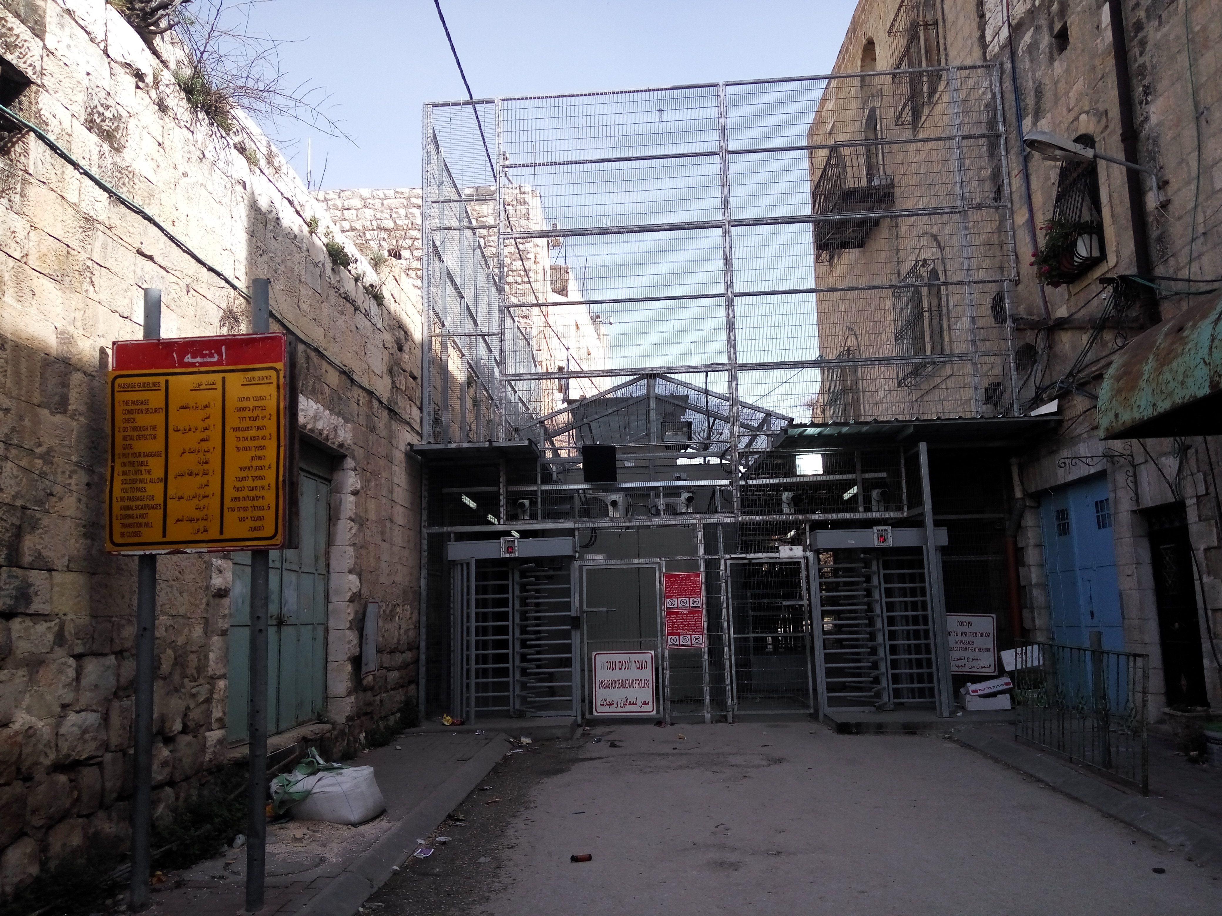 Entrance to Tel Rumeida' Hebron, February 2018